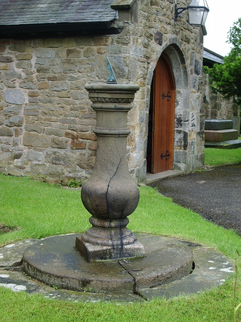 Sundial in St Mary the Virgin's parish churchyard, Goosnargh, Lancashire